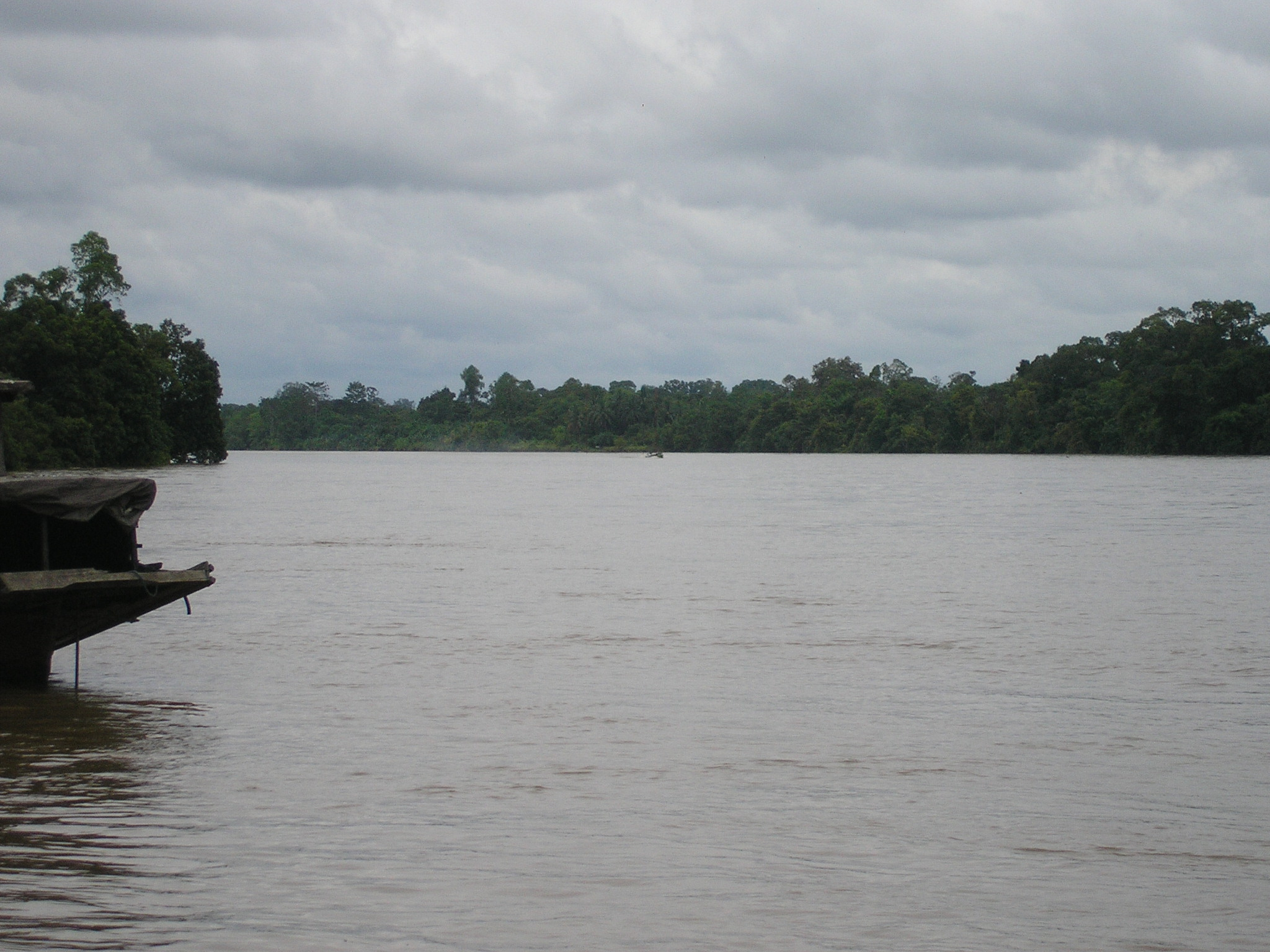 Katingan River, Central Kalimantan, Indonesia